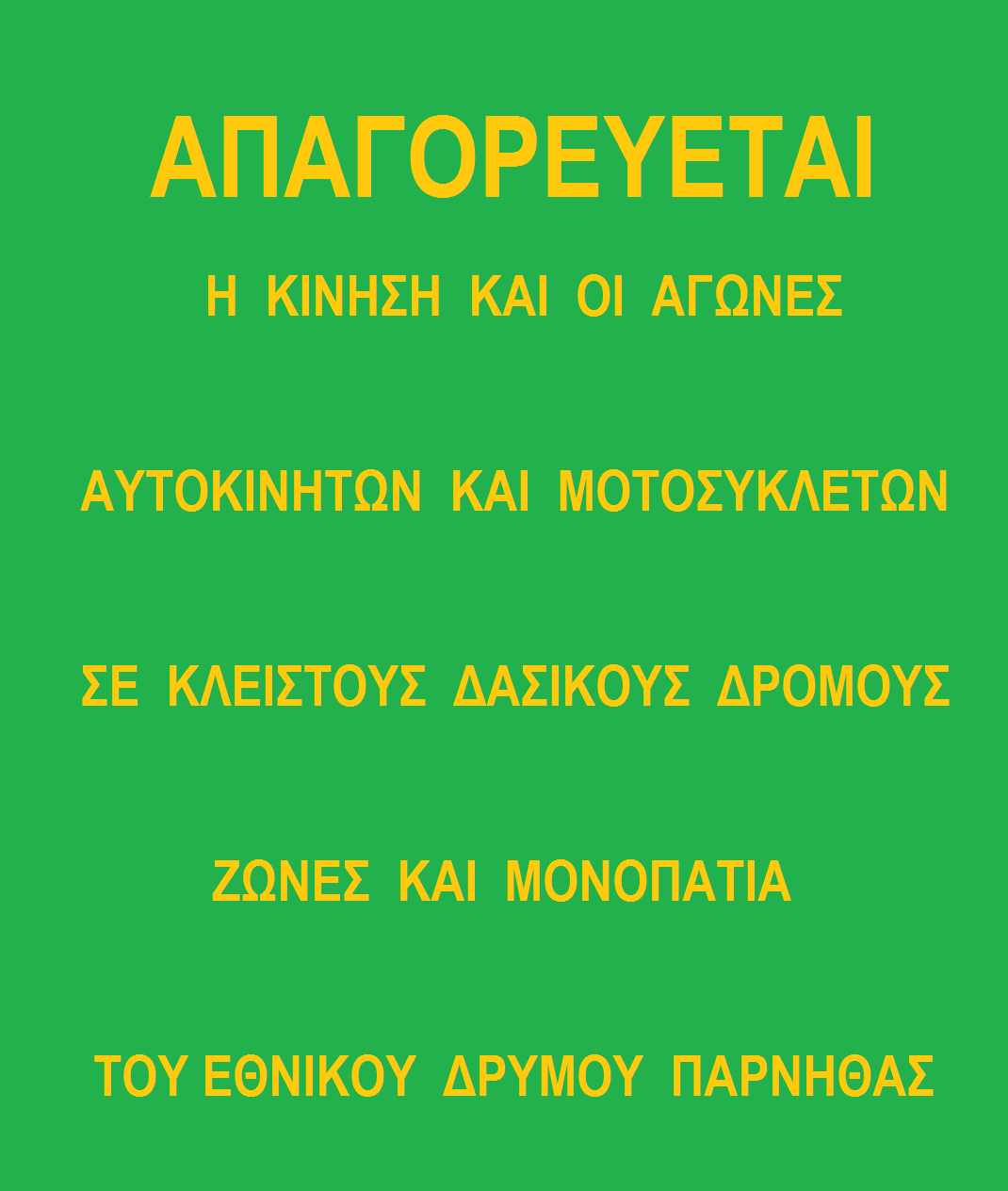 "No car and motorcycle traffic and races are allowed on closed forest roads, zones and paths of Parnitha National Park." - Parnitha National Park sign located at the start of the Park.